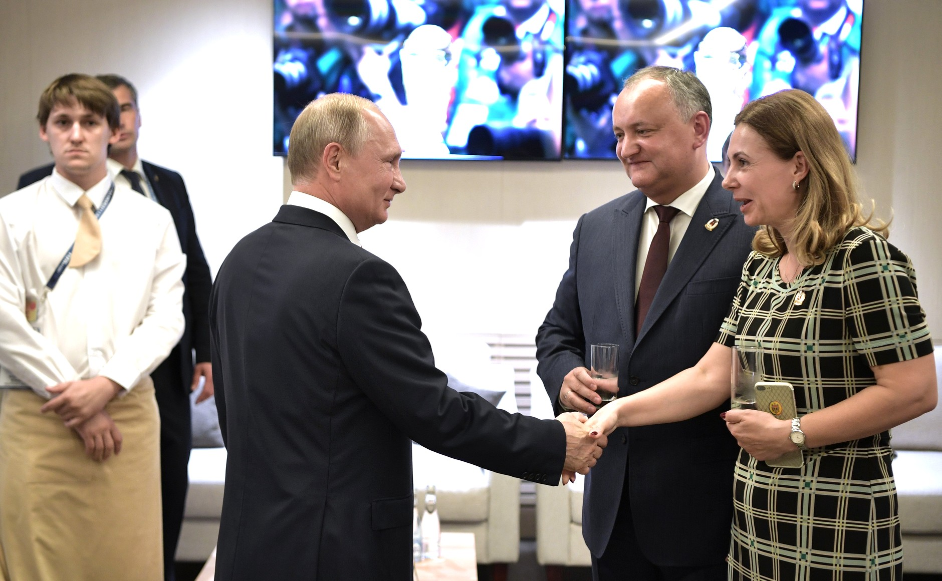 President Igor Dodon in Moscow in July 2018